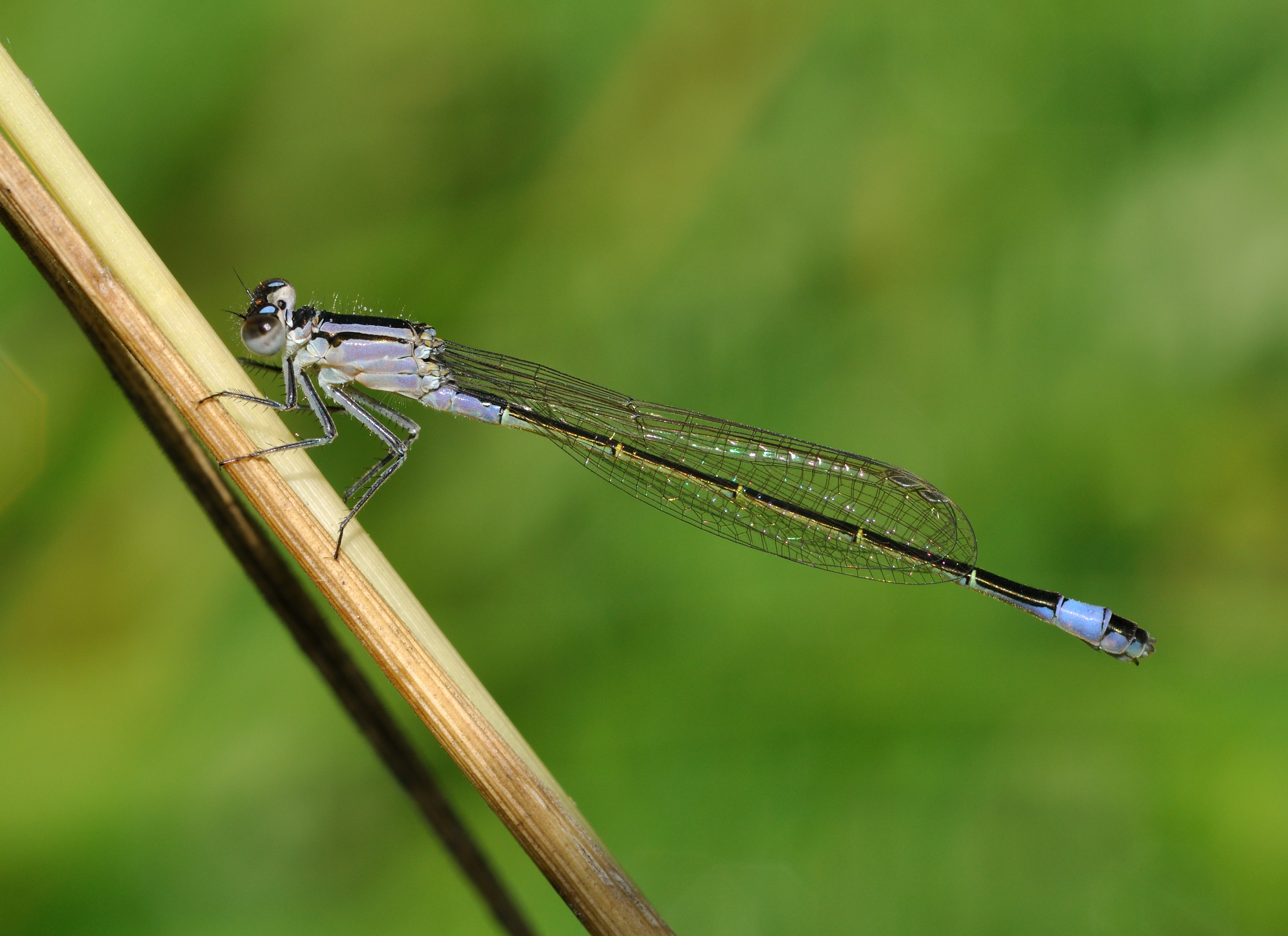 Agrion élégant (Ischnura elegans f. violacea) femelle photographiée près de l'ancien aérodrome de Francfort, en Allemagne.